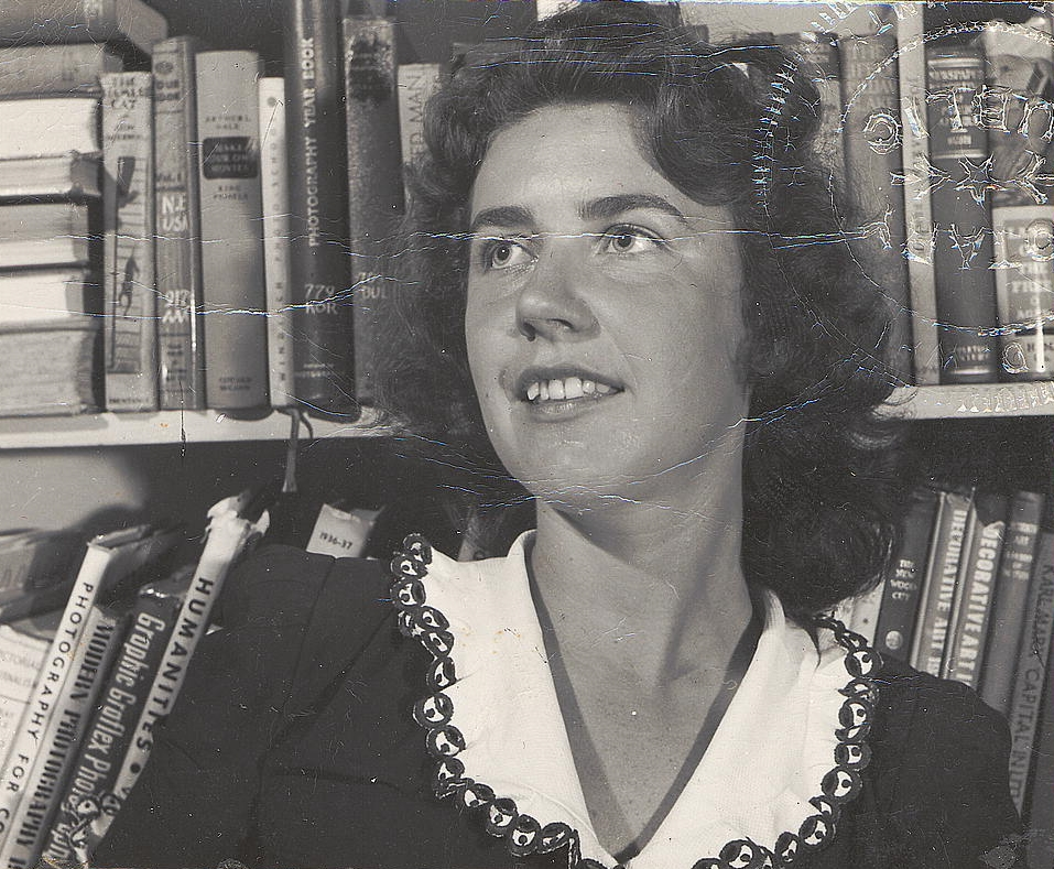 American photographer Marion Post Wolcott (1910-1990).